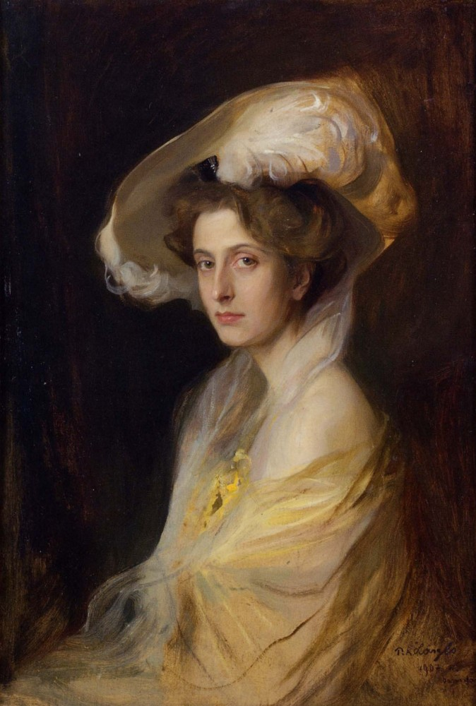 Louise Mountbatten (1889-1965)